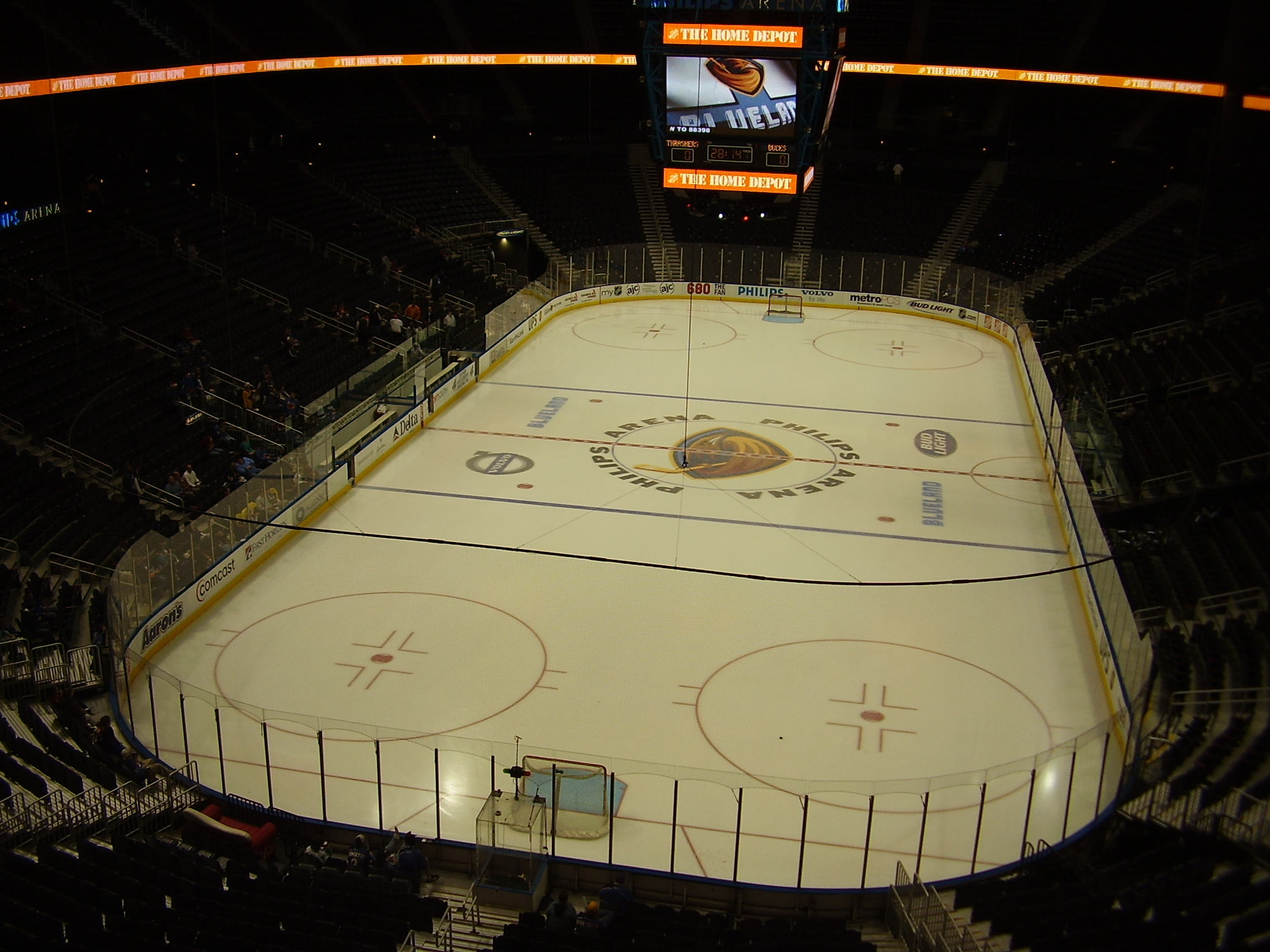 Philips Arena as seen from Section 303. Photo taken during Atlanta Thrashers vs. Anaheim Ducks game on December 13, 2006.